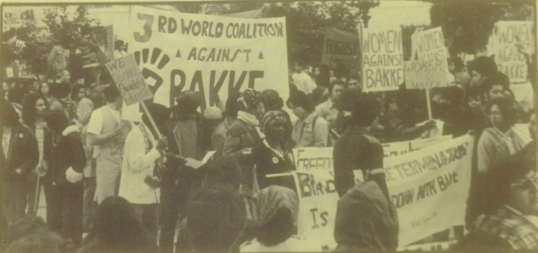 A rally support of overturning the California Supreme Court's decision in Bakke v. Regents of the University of California.